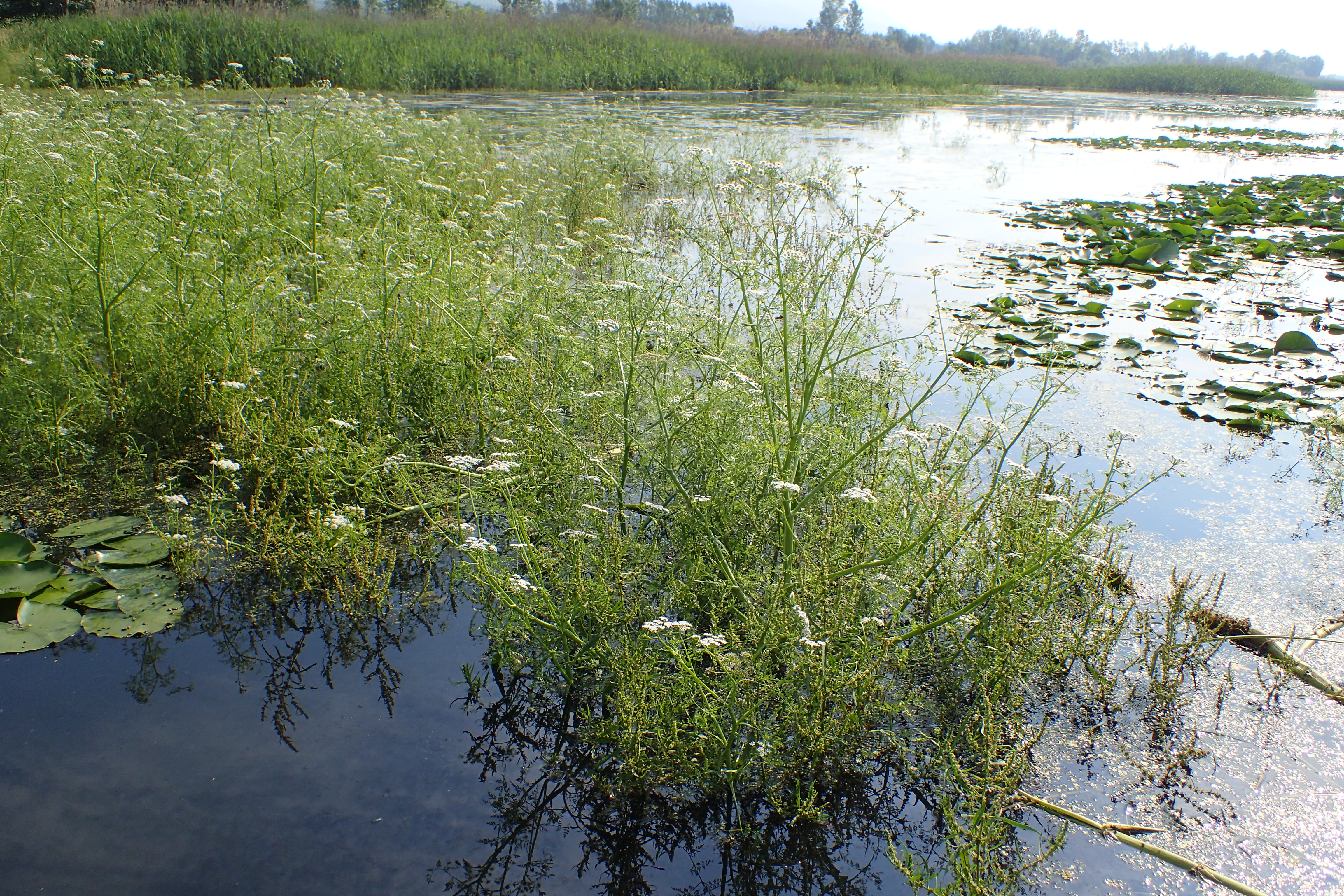 Oenanthe aquatica on Lake Kerkini, N Greece